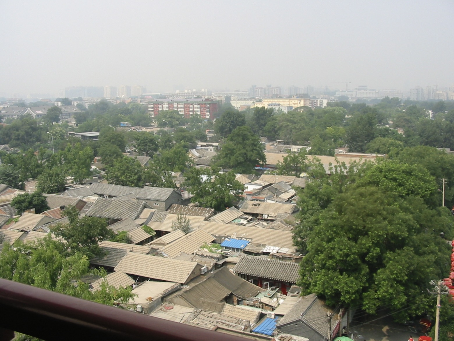 Hutong seen from Drum Tower Beijing Zicht op de Hutong in Beijing, vanaf de Drum Toren.